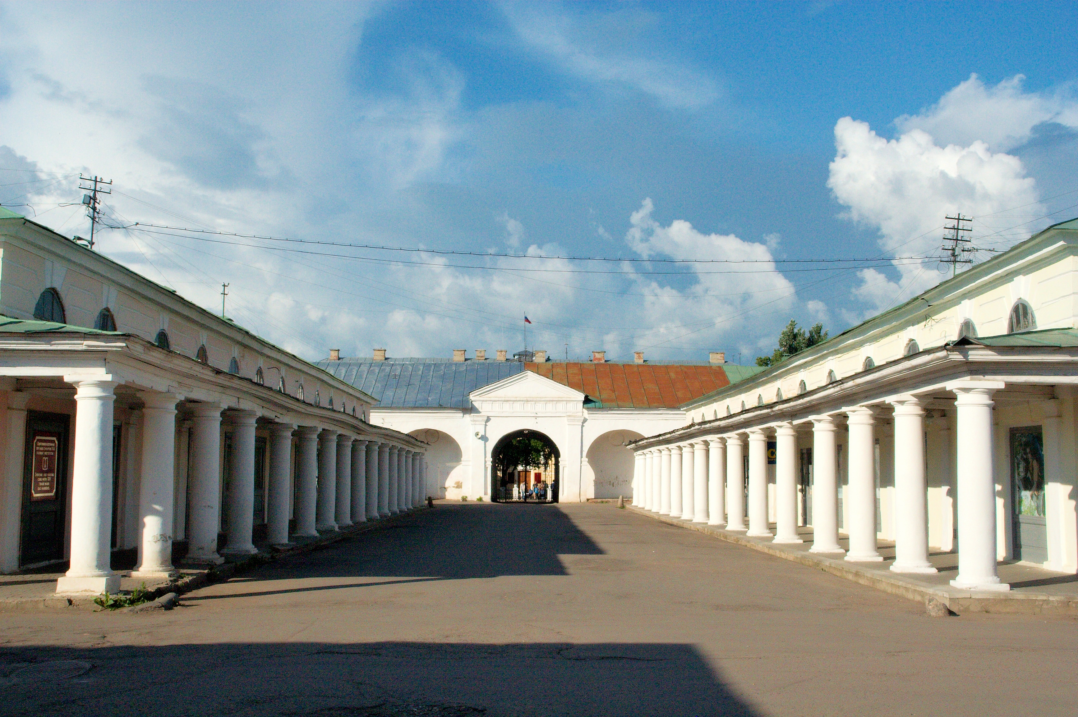 Old Trade Rows in Kostroma, Russia. Small item's Rows.